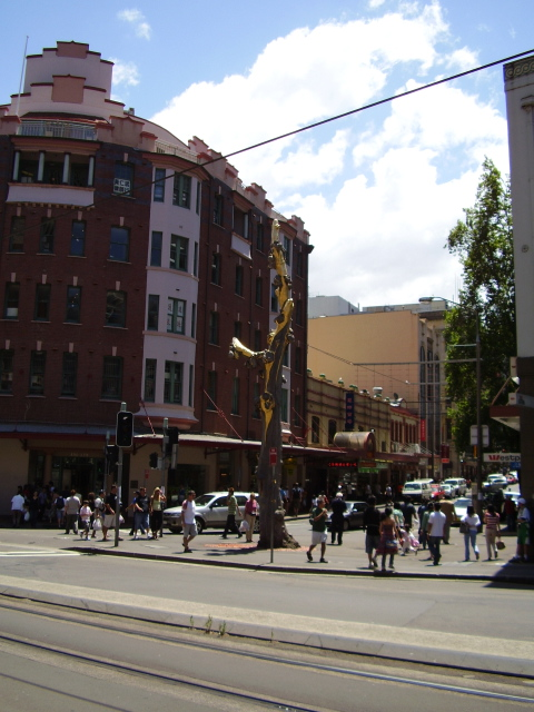 Golden Water Mouth, Chinatown, Sydney, Australia. Photo by Miles Li.